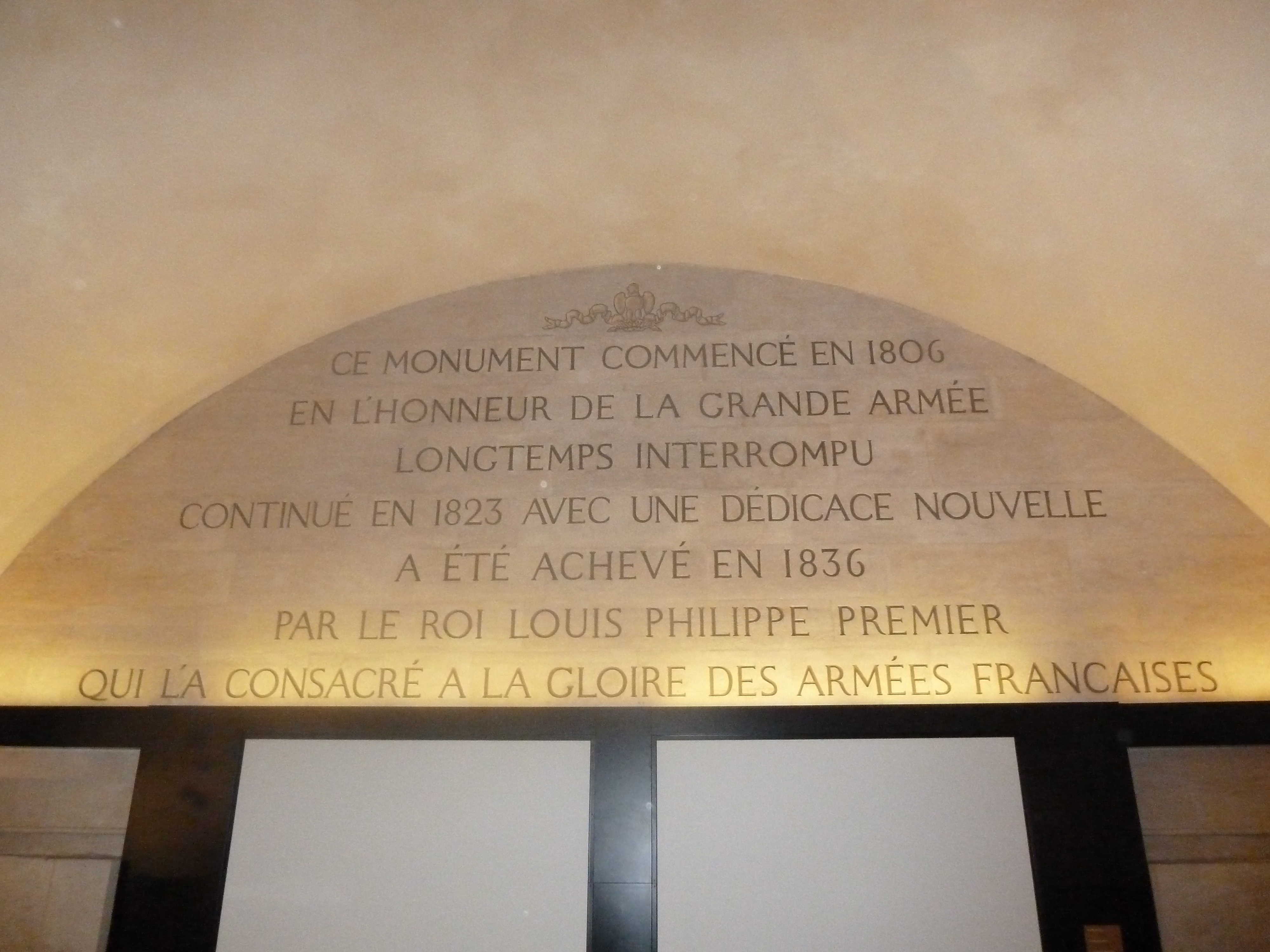 Arc de Triomphe - Interior